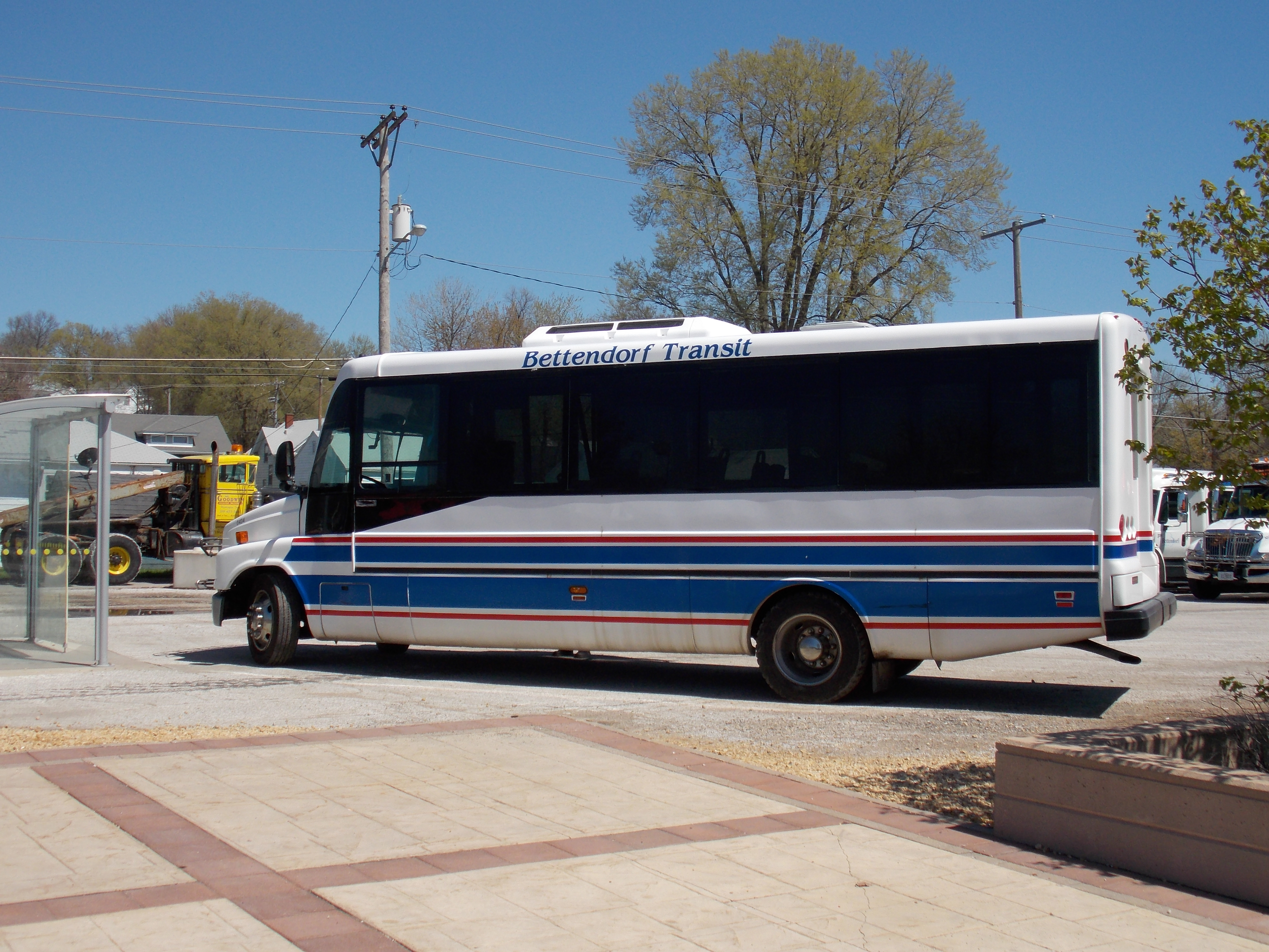 A Bettendorf Transit bus parked at the downtown transit hub.